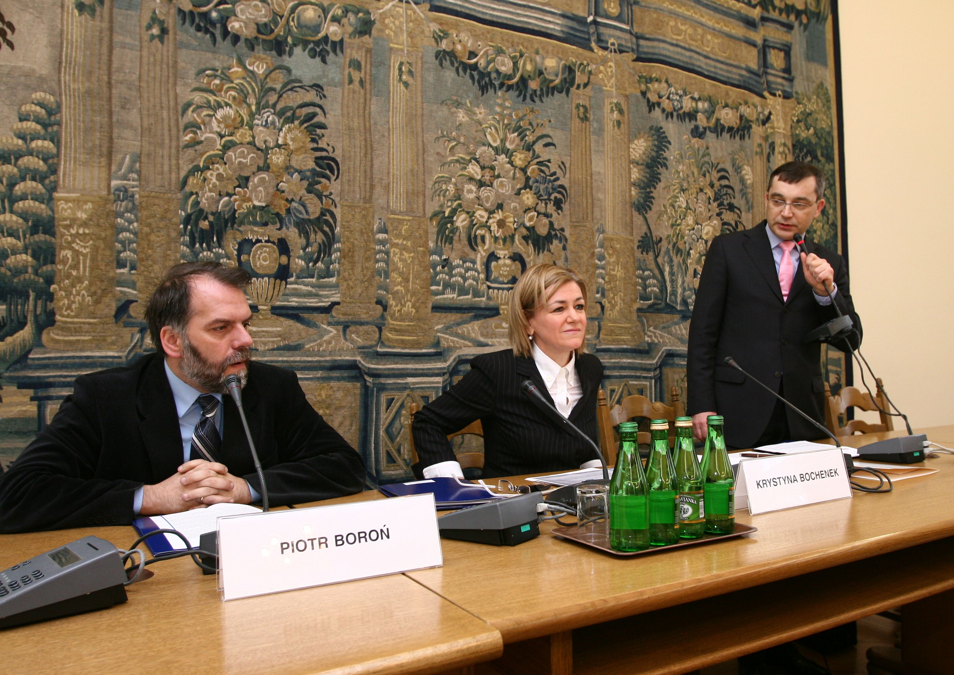 Conference "How to create 21st century copyright: first steps" in the Polish Senate